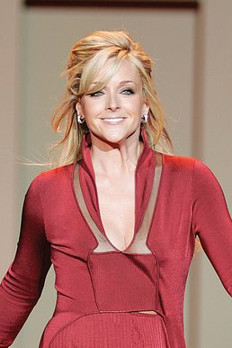 Actress Jane Krakowski at the 2007 Red Dress Collection show for the Heart Truth